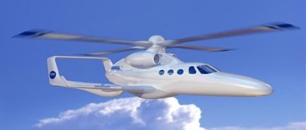 DARPA's "Heliplane" concept, based on an Adam A700.